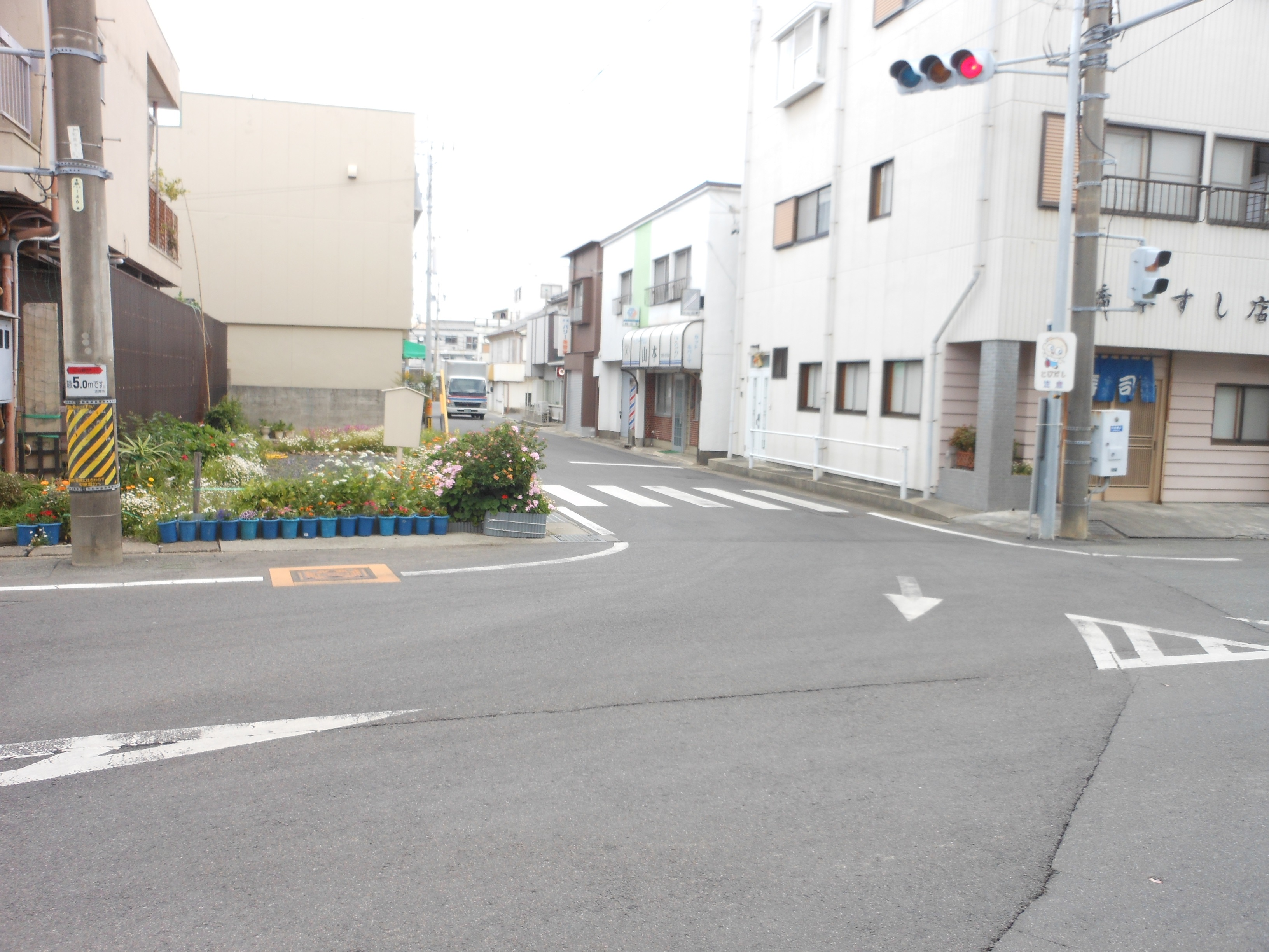 This is the start point of Mie prefectural road No.729 Higashi Urta Line, which is in Shimacho-Wagu, Shima, Mie, Japan.